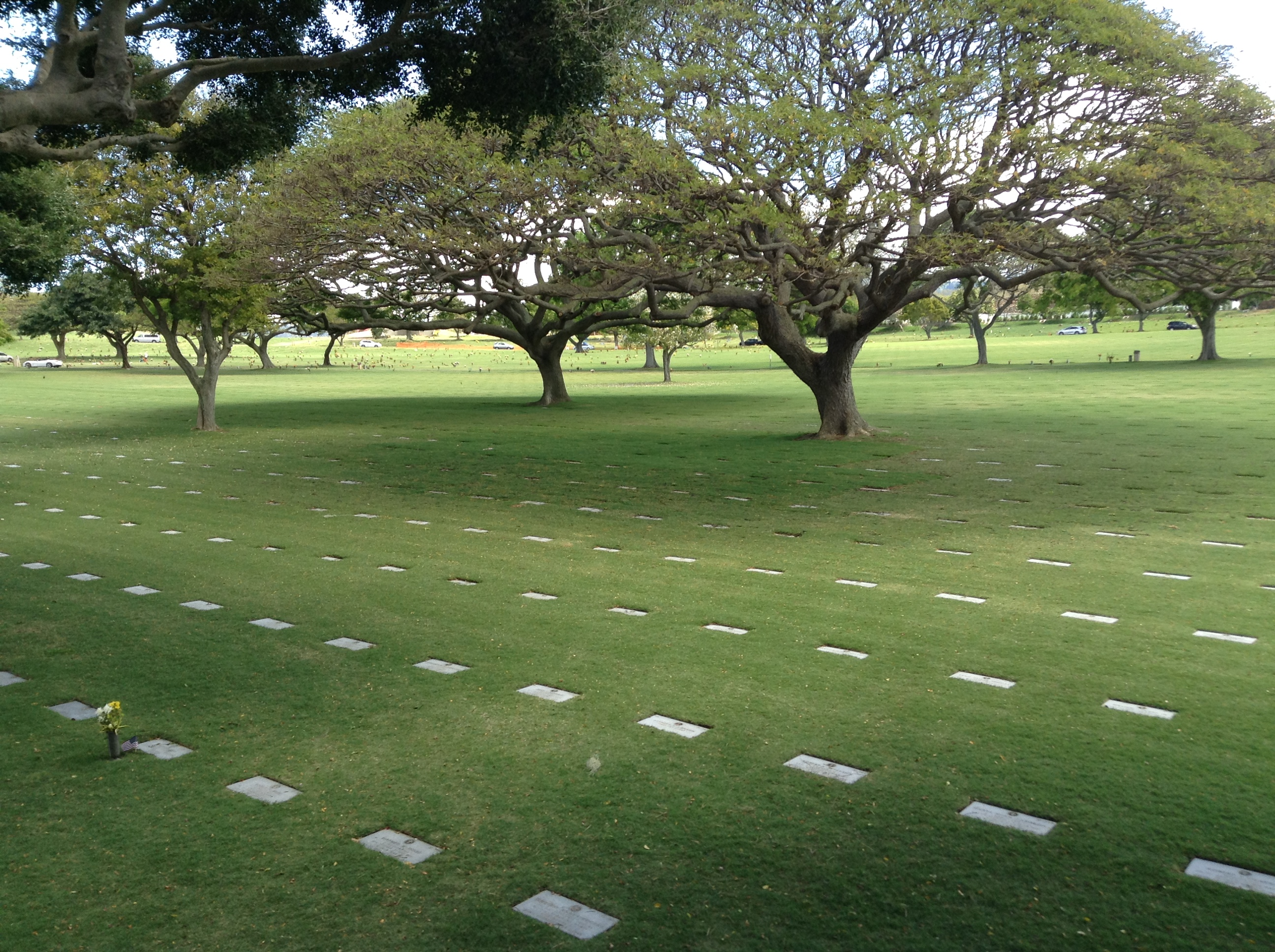 Headstones at Punchbowl National Cemetery.